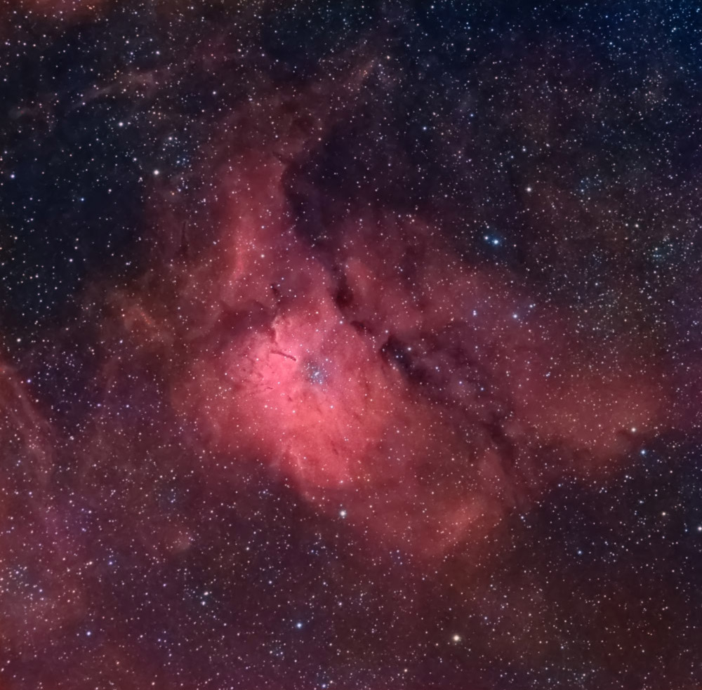 NGC 6820 ("pillar" right of center) and NGC 6823 (open cluster near pillar) imaged using amateur telescope.